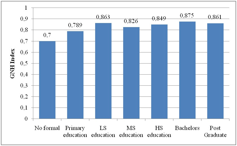 This diagram shows the difference of the GNH-Index between inhabitants with different educational levels from the 2015 survey in Bhutan. Data from